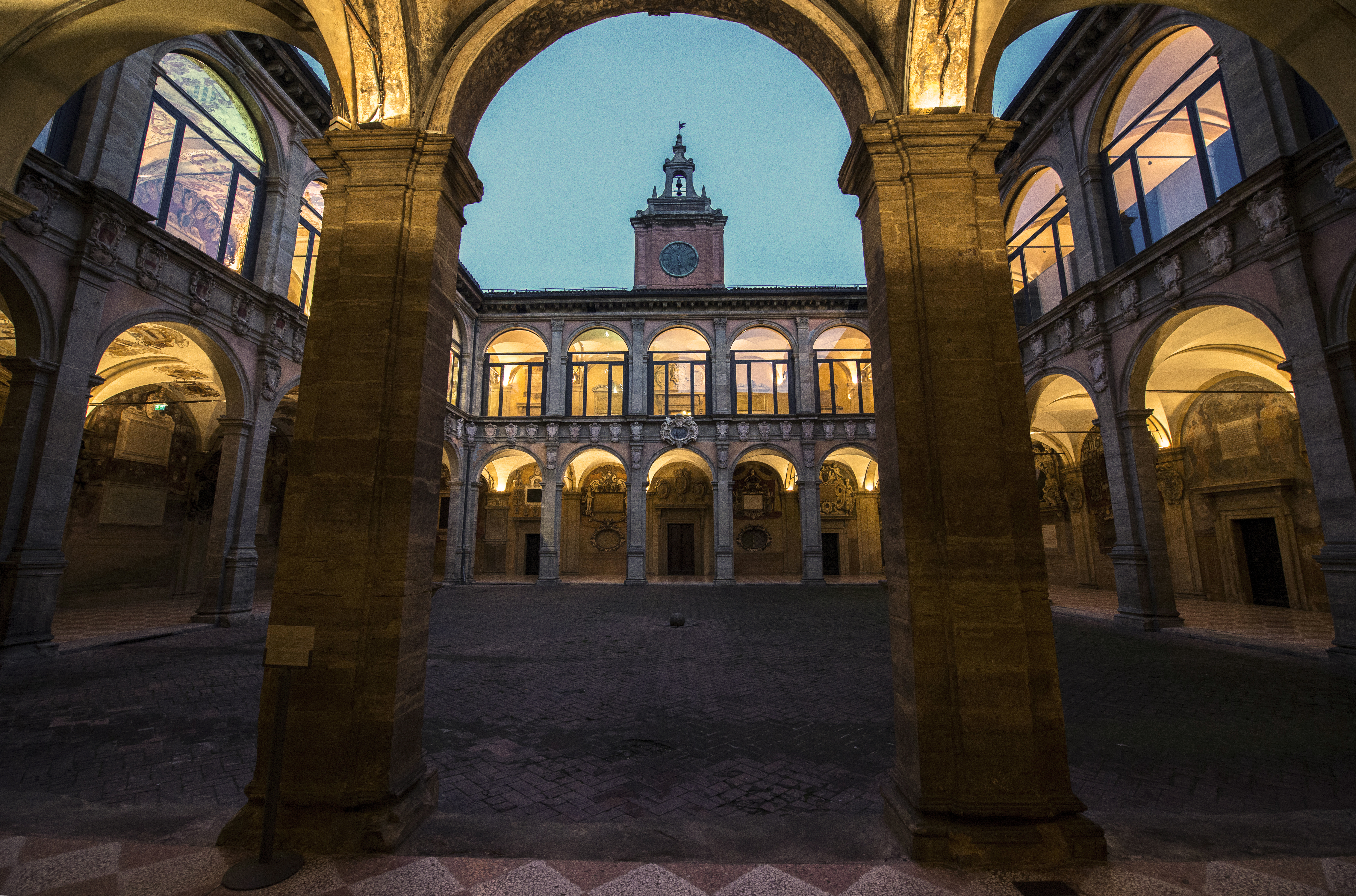 This is a photo of a monument which is part of cultural heritage of Italy.